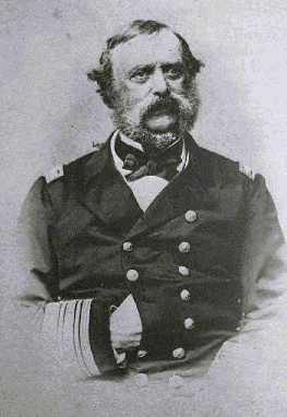 Photograph of Samuel Francis du Pont, taken October, 1862 by Frederick Gutekunst (1823 – 1917).